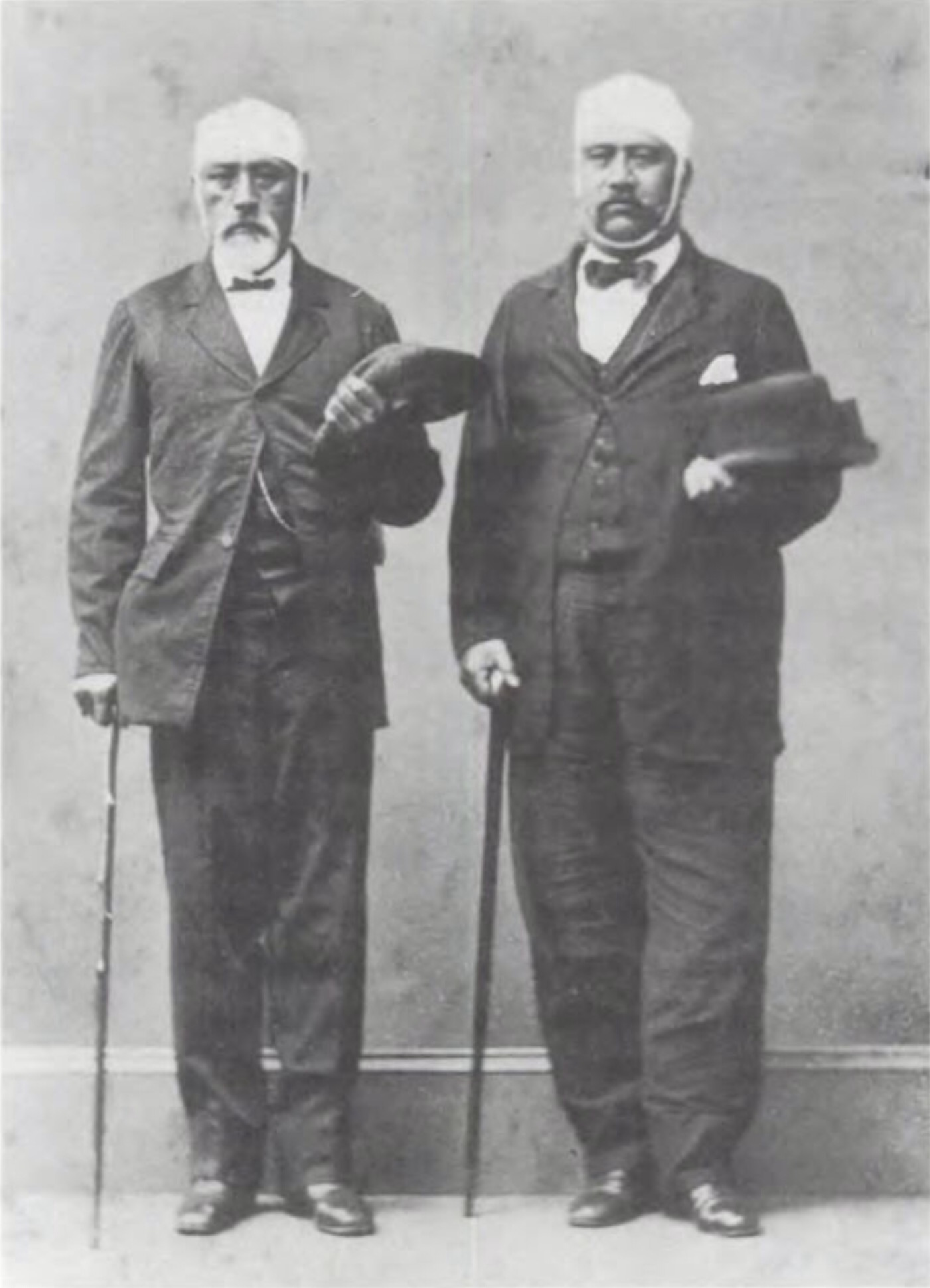 Representatives William Thomas Martin and William Luther Moehonua, survivors of the attack on the legislative assembly by Queen Emma's supporters, 12 February 1874. Kalakaua made Moehonua his first minister of the interior and later governor of O'ahu. Martin did not return to the legislature.